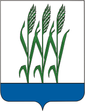 Kamyshin (Volgograd oblast), coat of arms